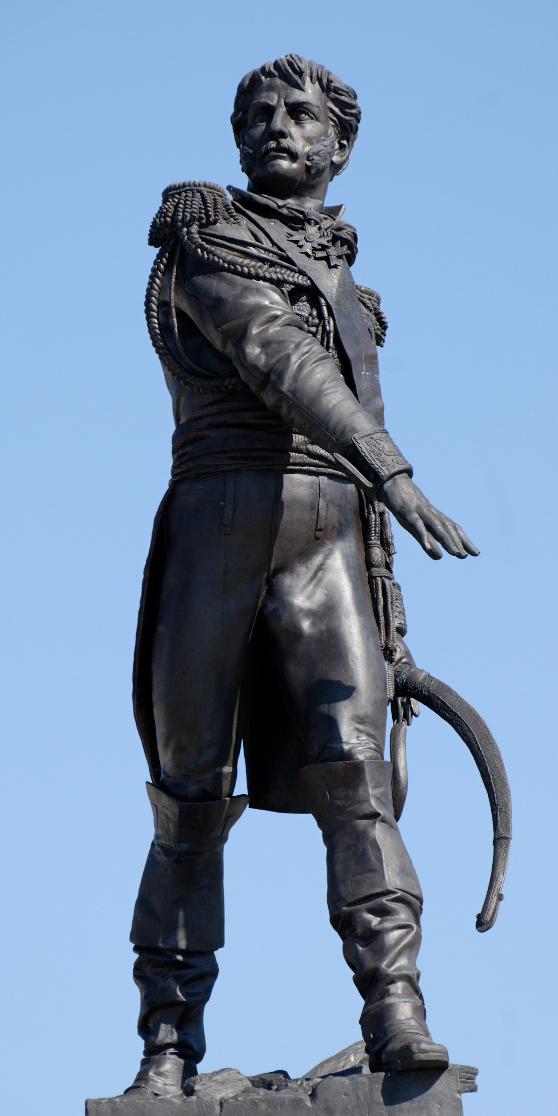 Statue of General Jean Rapp (1771–1821) by Frédéric Auguste Bartholdi (1834–1904) on the Champ de Mars in Colmar, France.